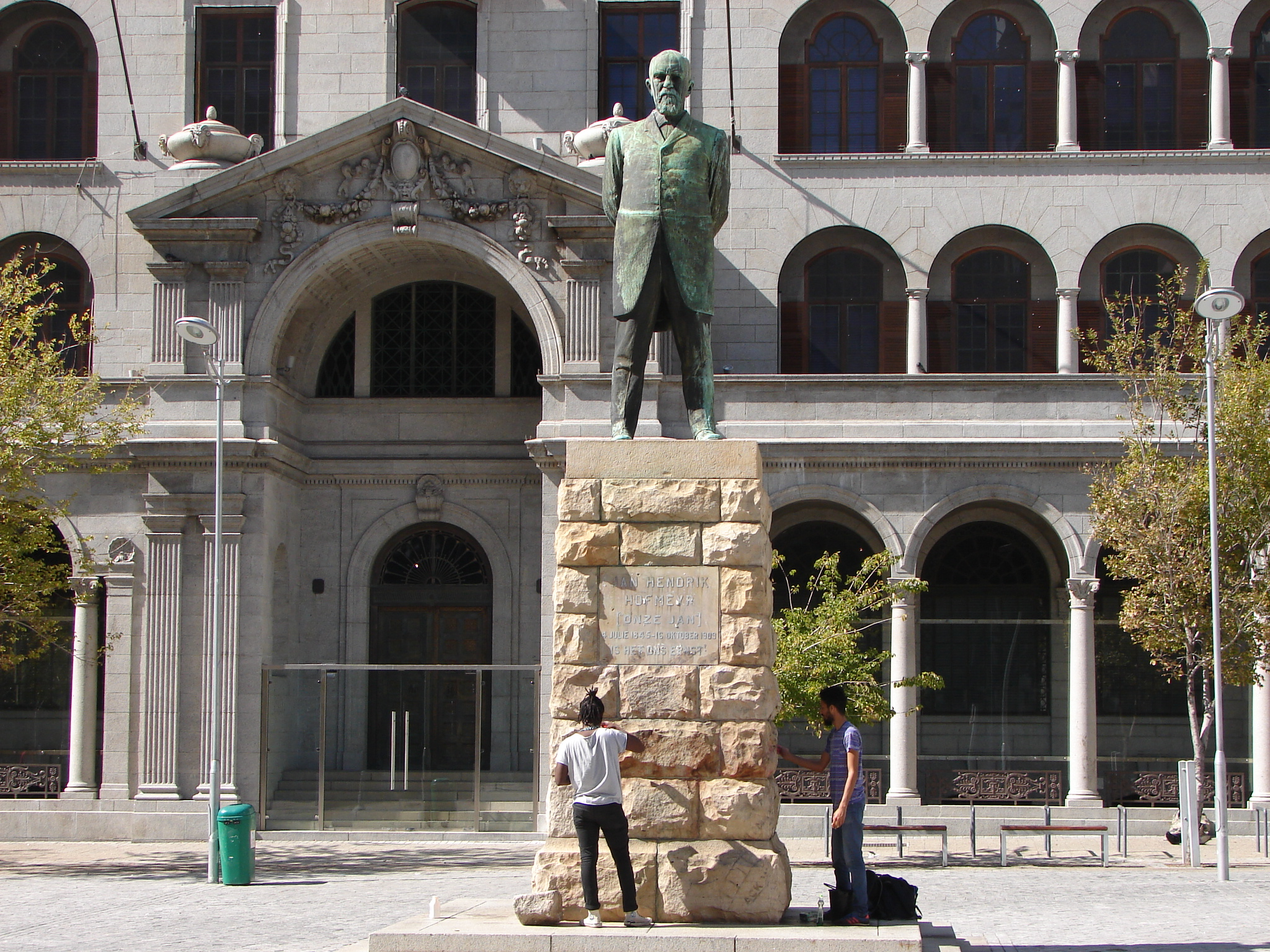 The base of the statue of Jan Hendrik Hofmeyr (Onze Jan) in Cape Town, having been vandalised during the "Rhodes Must Fall" student riots, being cleaned by a couple of volunteers.